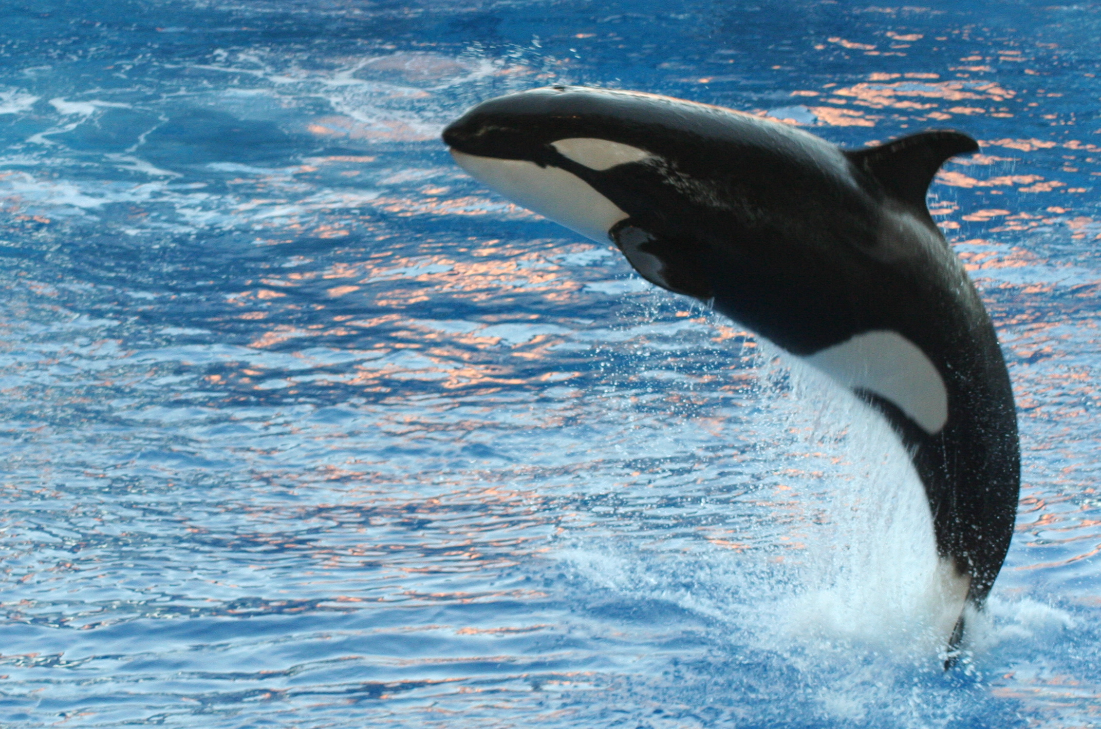 An Orca (Orcinus orca) jumping at the Orlando Seaworld in Orlando, Florida, USA.